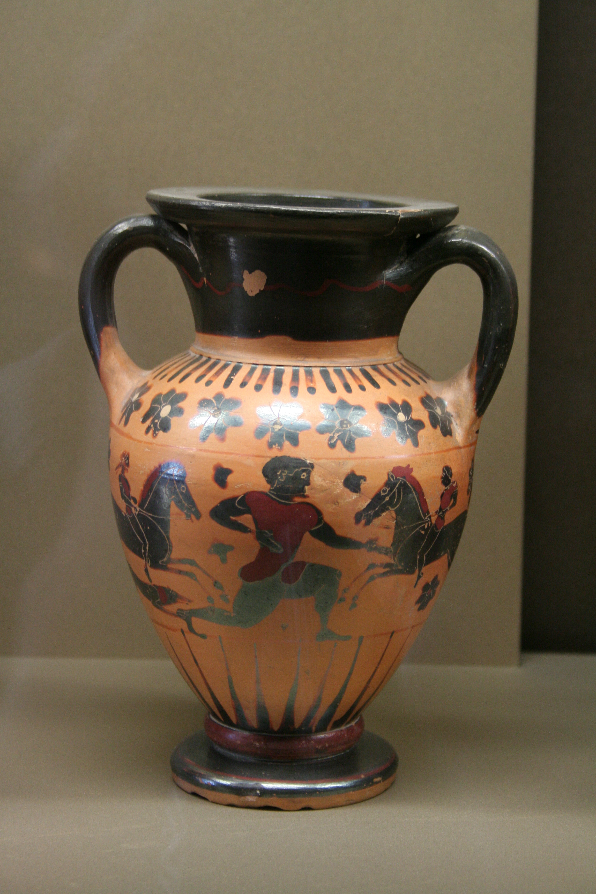 Runner and riders, detail from the side A of a black-figure neck-amphora. Side A